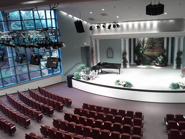 The General Conference of the Seventh-day Adventists Auditorium is part of the headquarters building in Silver Spring, Maryland.